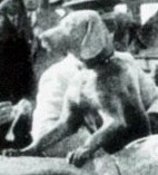 1930 Yalova visit